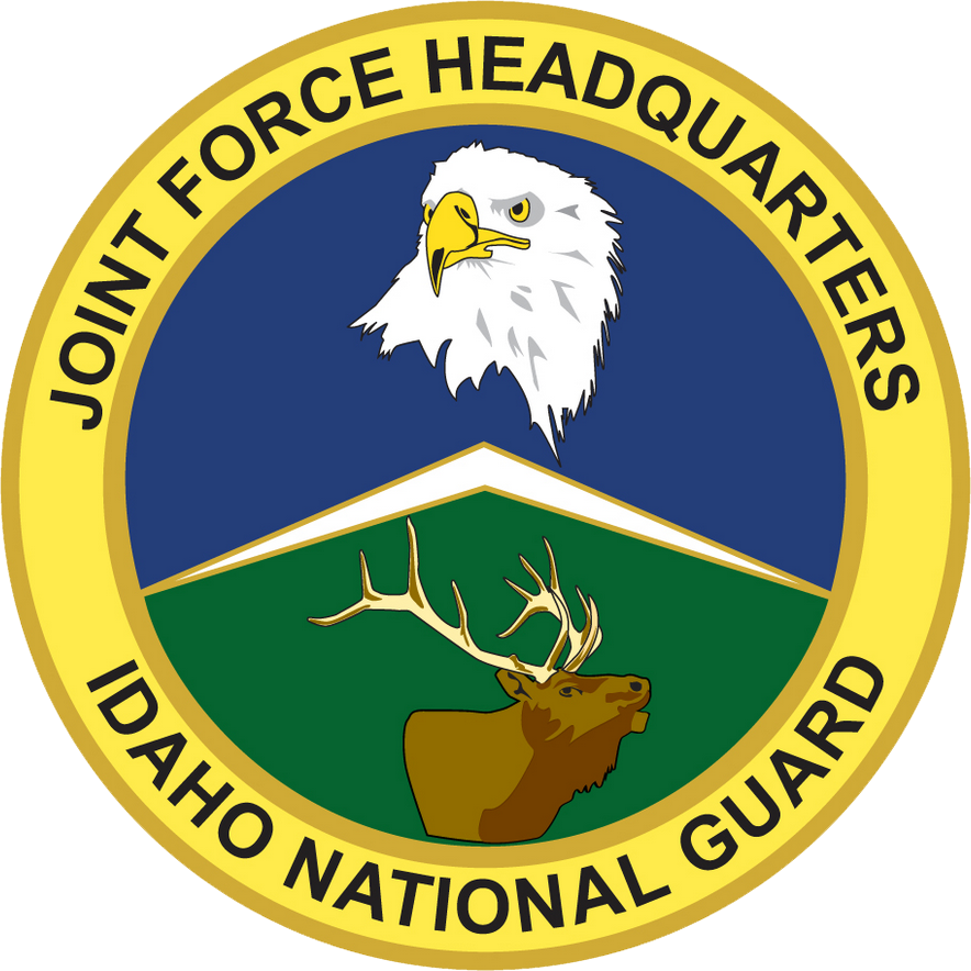 Joint Force Headquarters - Idaho National Guard emblem